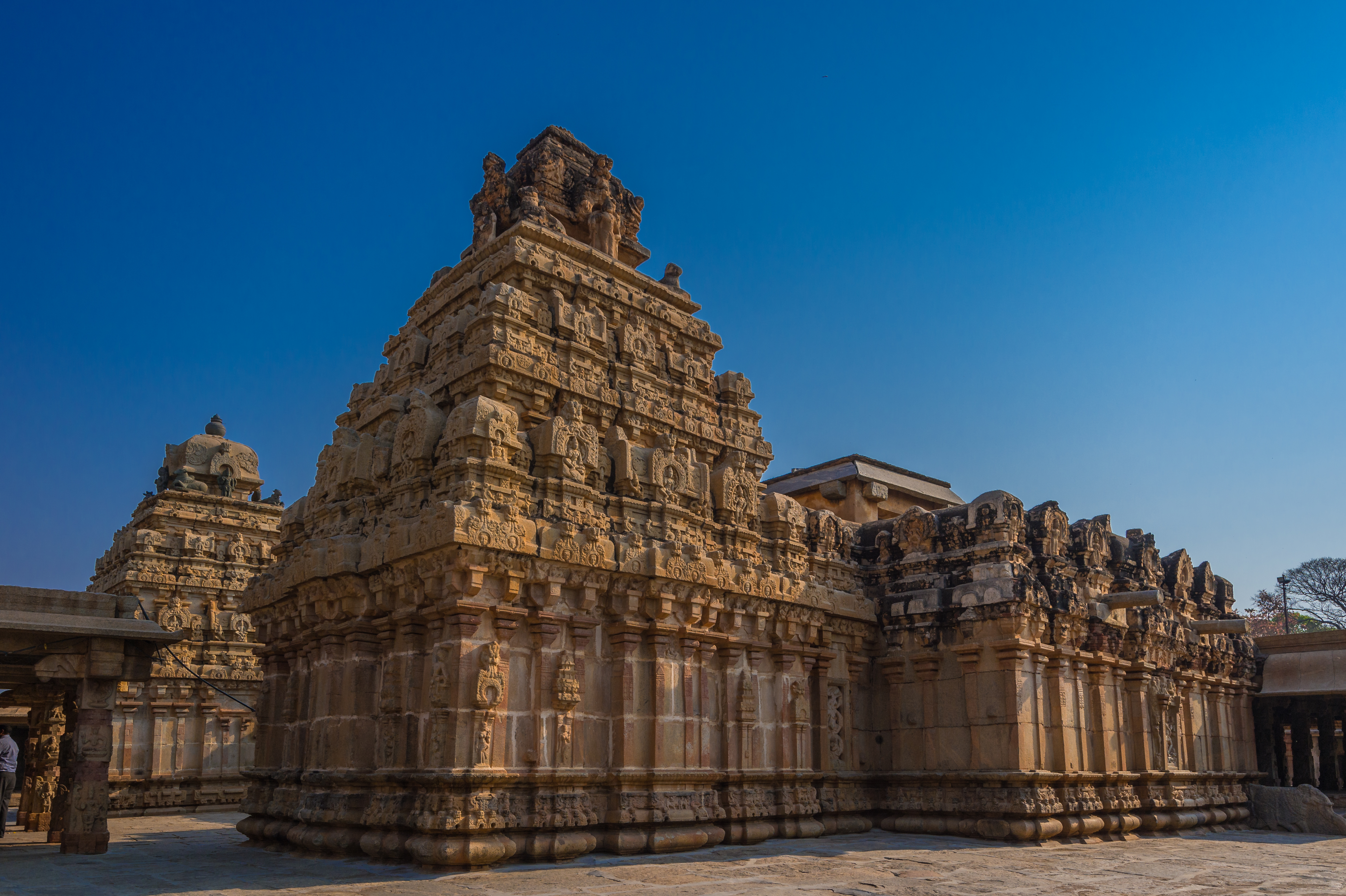 Hoysala Temples